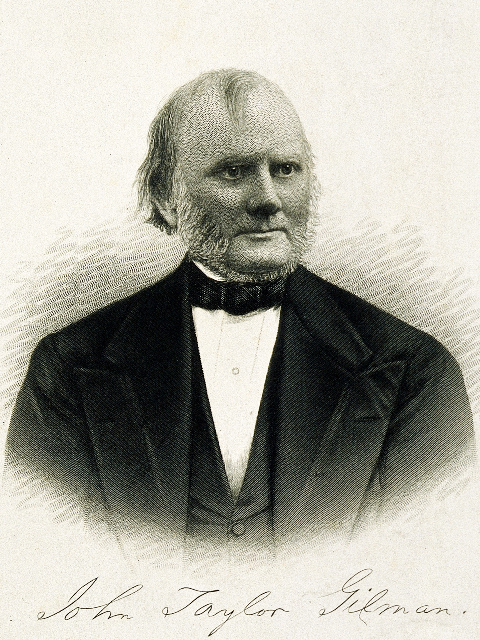 John Taylor Gilman, M.D. of Portland, Maine